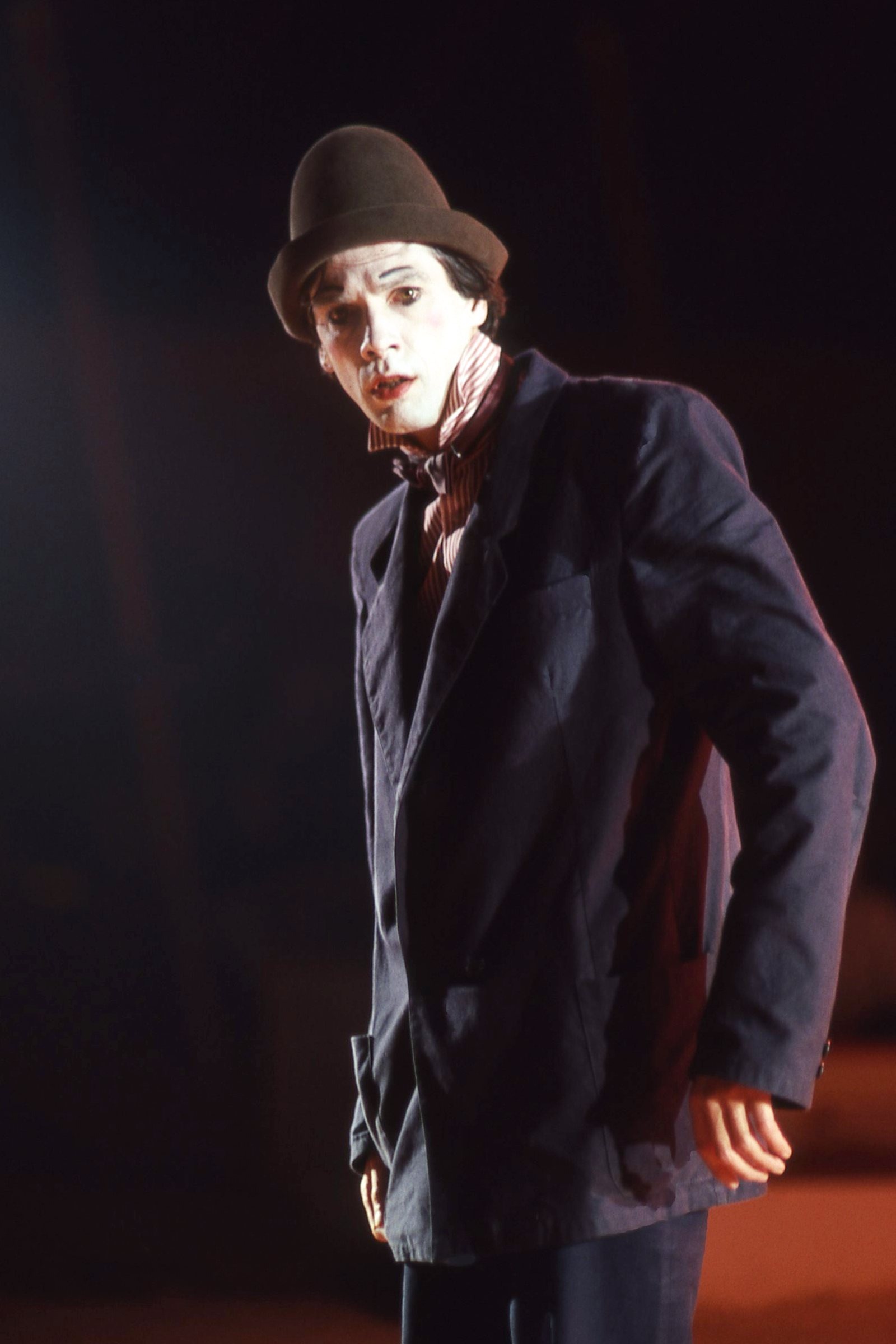 American clown David Shiner pictured during a 1984 performance of the German 'Circus Roncalli' in Düsseldorf.